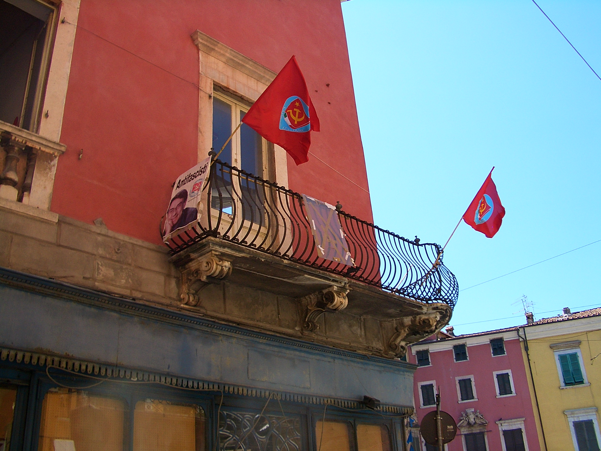 In Carrara's central square. The flag of (an) Italian Communist Party is flown its office